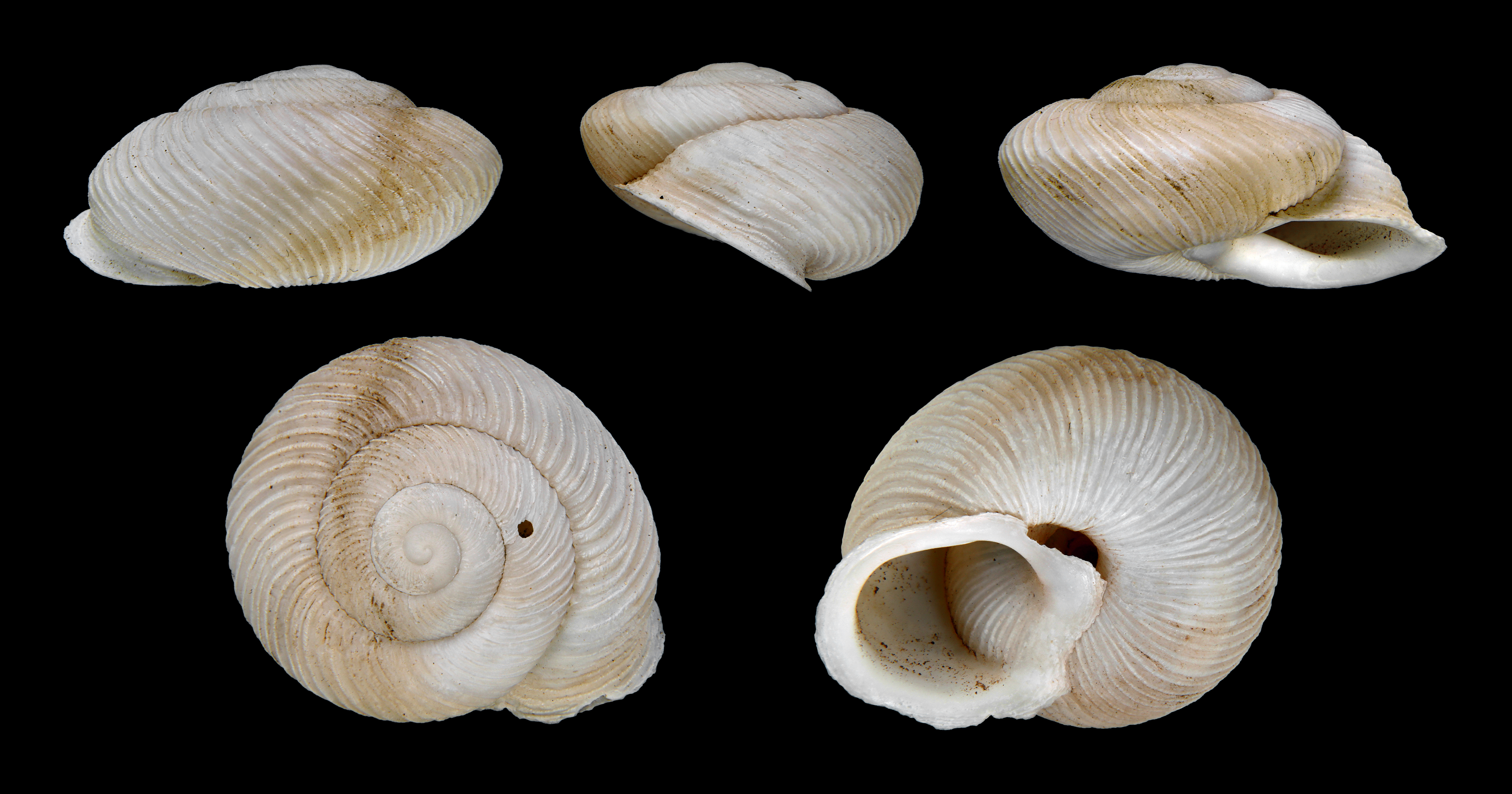 Diameter: 2.3 cm; Originating from the Barranco de Masca, Tenerife, Spain, 28°18′5.28″N 16°50′24.67″W / 28.3014667°N 16.8401861°W; Endemic species of Tenerife. Shell of own collection, therefore not geocoded.